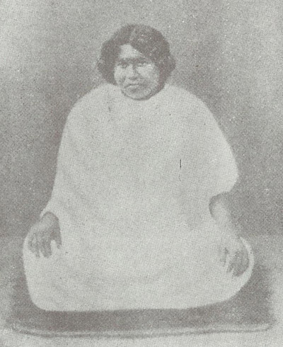 The image is the scanned photograph of Swami Pranavananda (1896-1941), the founder of Bharat Sevashram Sangha, when he was a brahmachari.